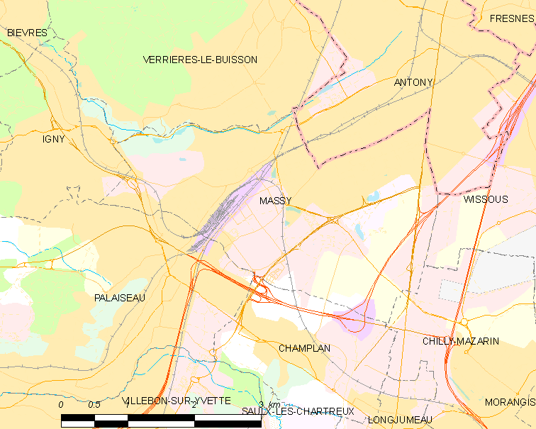 Map of French municipality Massy